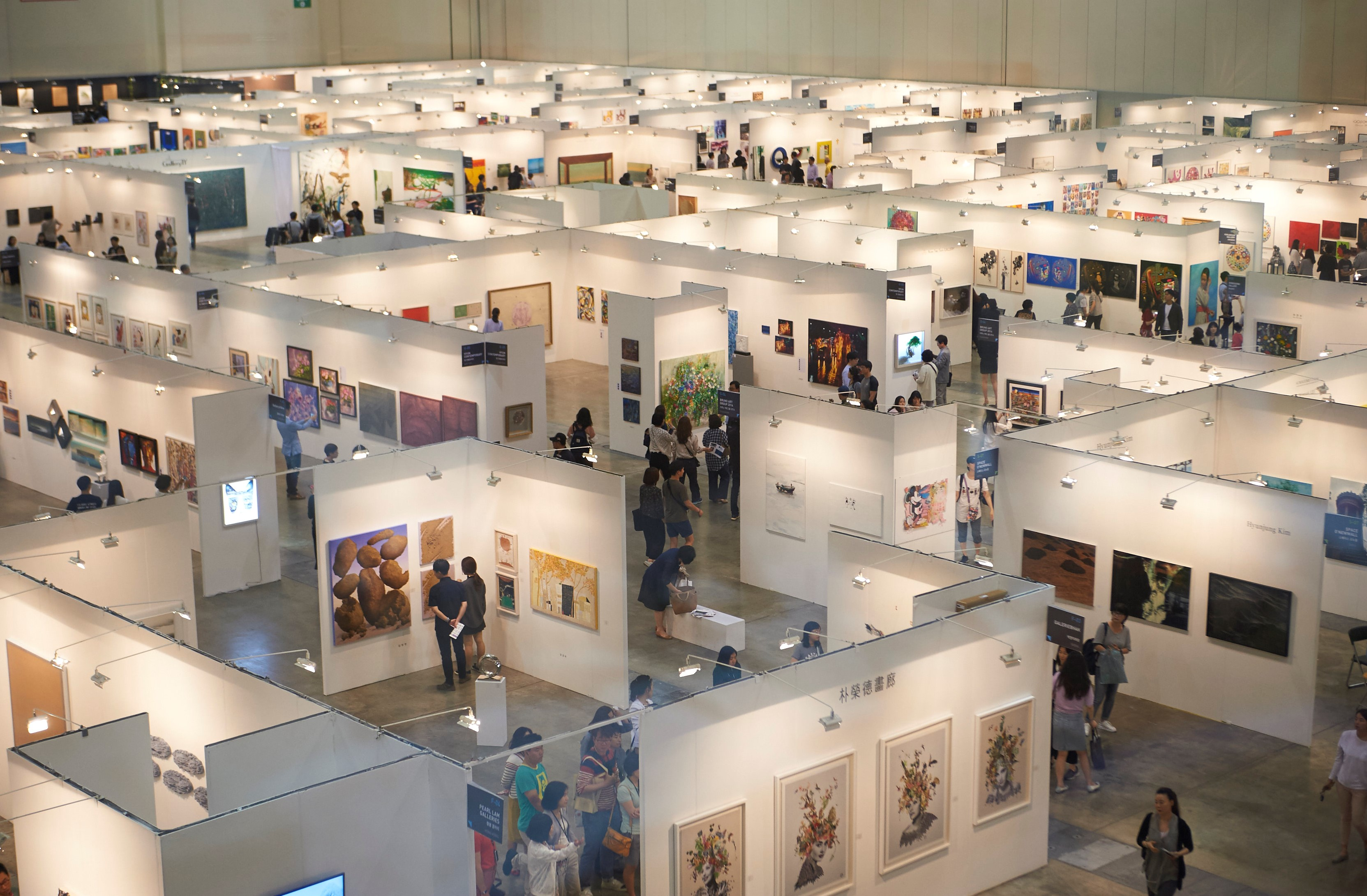 The largest art fair in Korea launched in 2012. Over 160 galleries from all corners of the world participate in the fair. The 2018 Fair was held from April 20th to April 22nd at BEXCO.